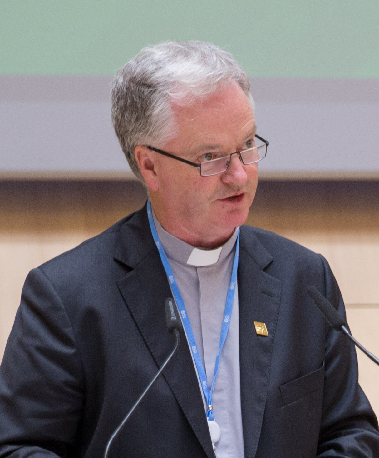 High-Level Policy Statements. Holy See (Vatican City State) – H.E. Mr Paul Tighe, Secretary of the Pontifical Council for Social Communications. ©ITU/I.Wood